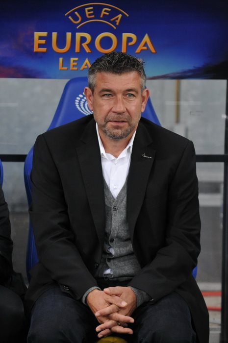 Urs Fischer (footballer)